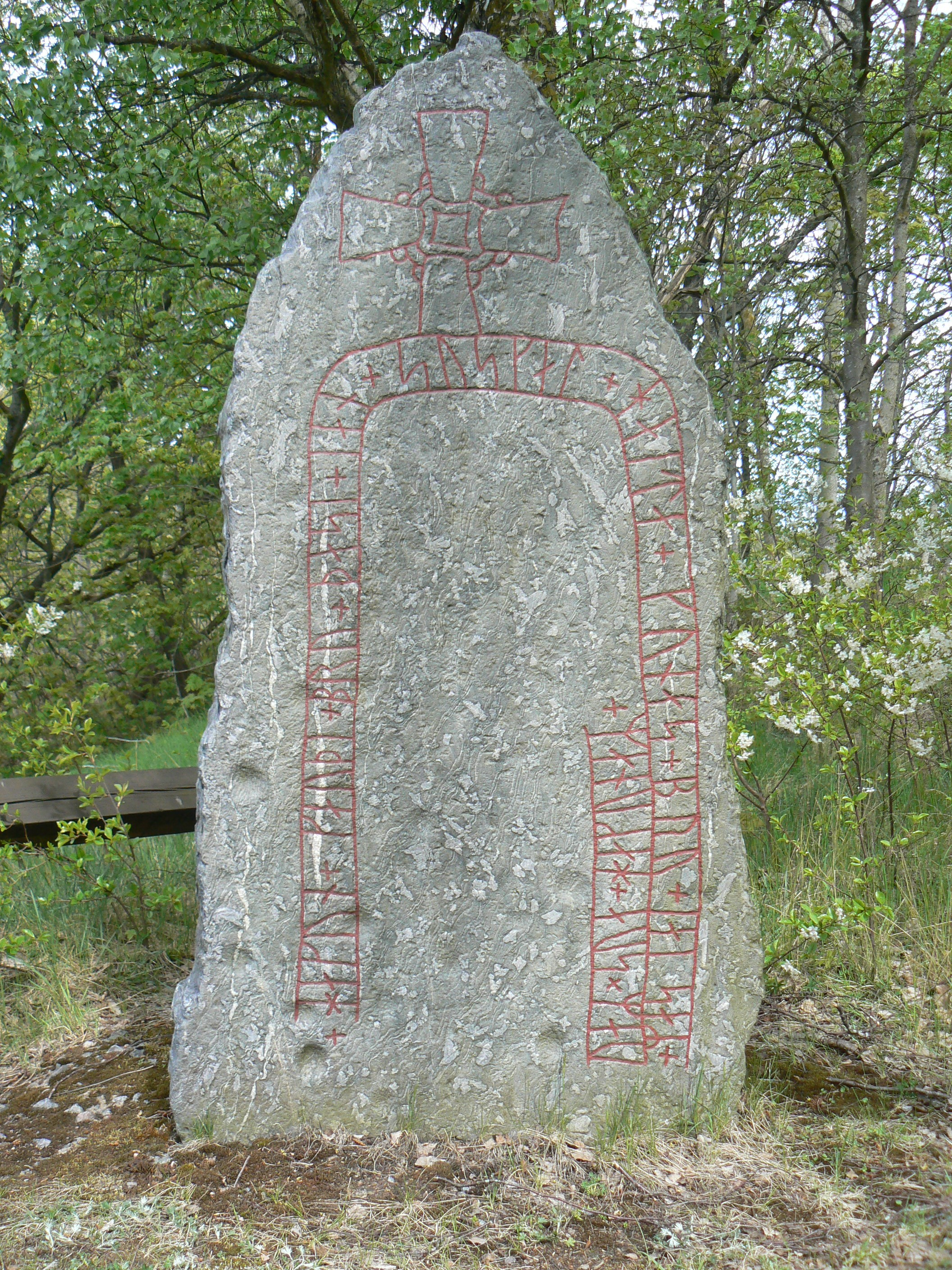 Östergötlands runinskrifter 162, 11th century runestone at Skärblacka in Östergötland, Sweden.